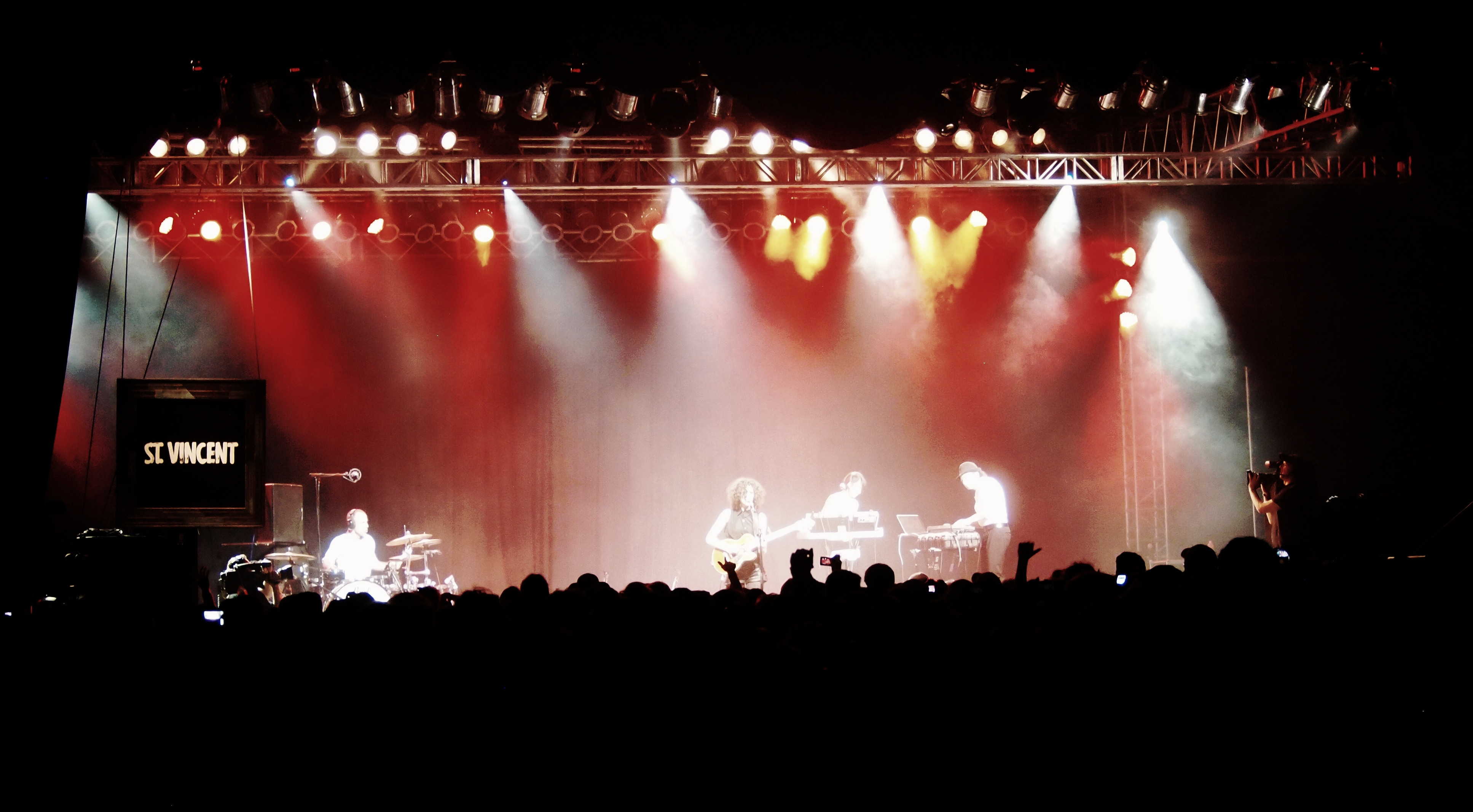 Annie Clark and her band performs Friday night at That Tent at Bonnaroo.